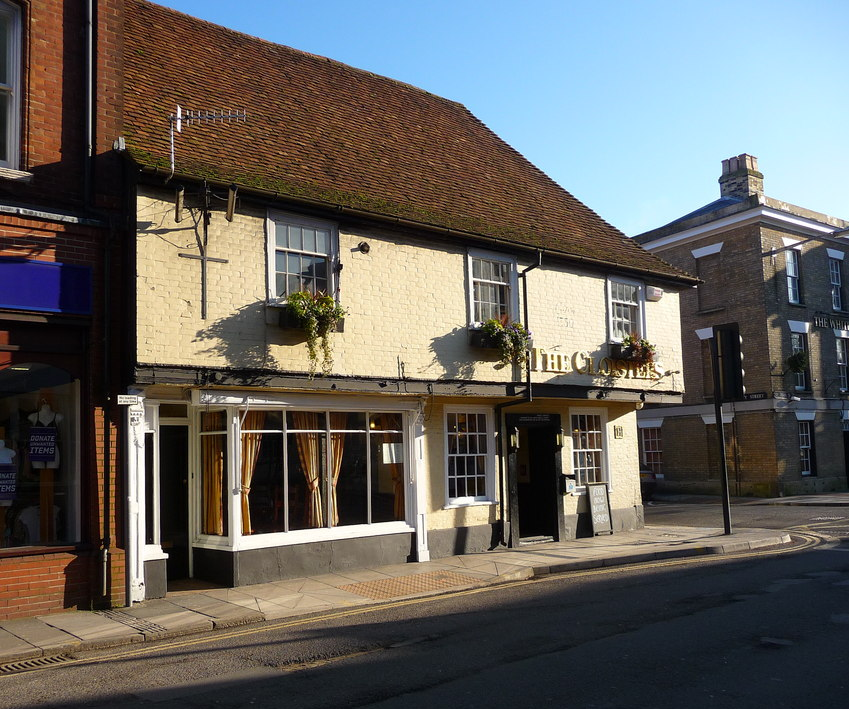 Salisbury - Cloisters Public House The Cloisters is on the junction of New street and St Catherines Street.